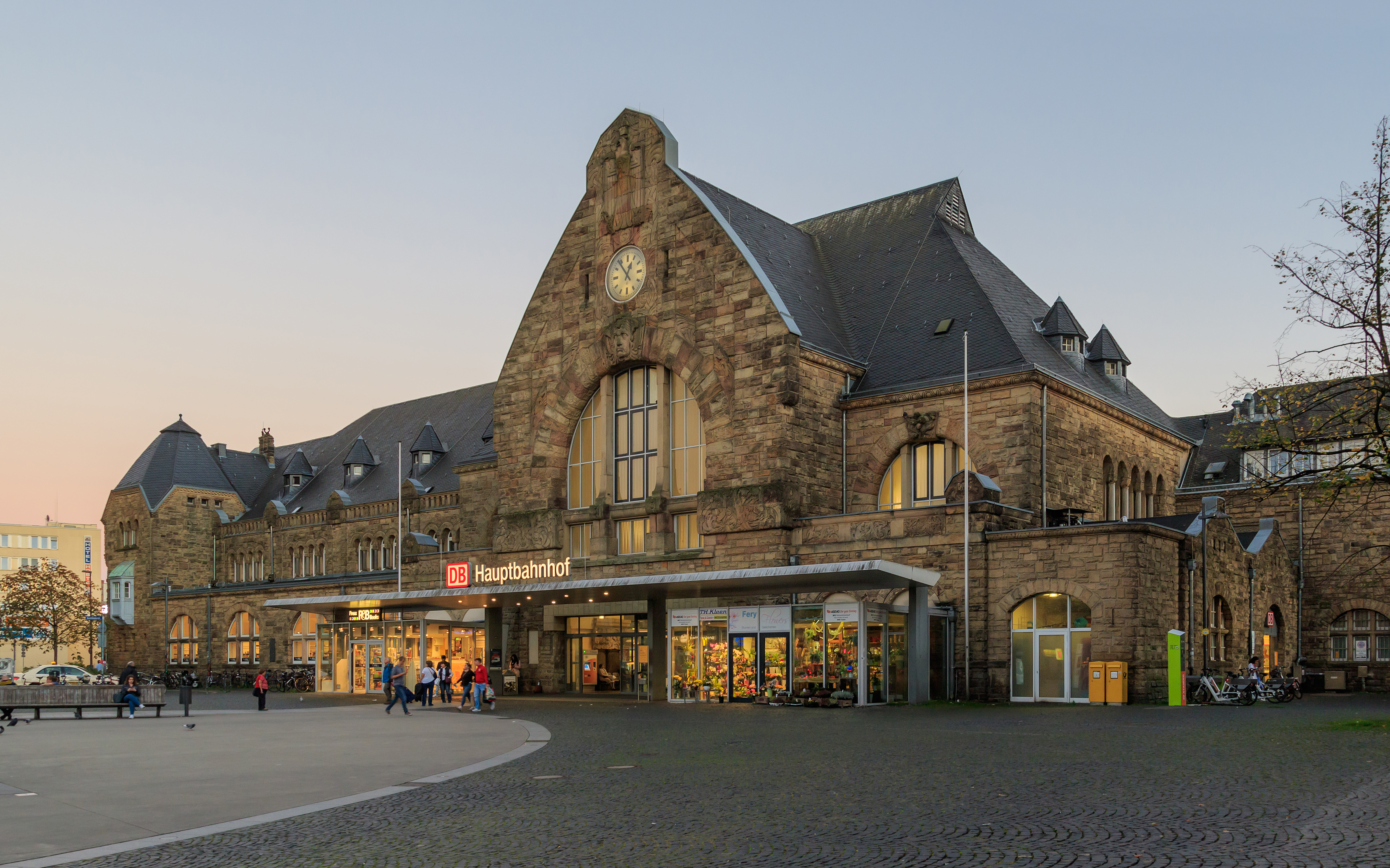 Main railway station building in Aachen (Germany)